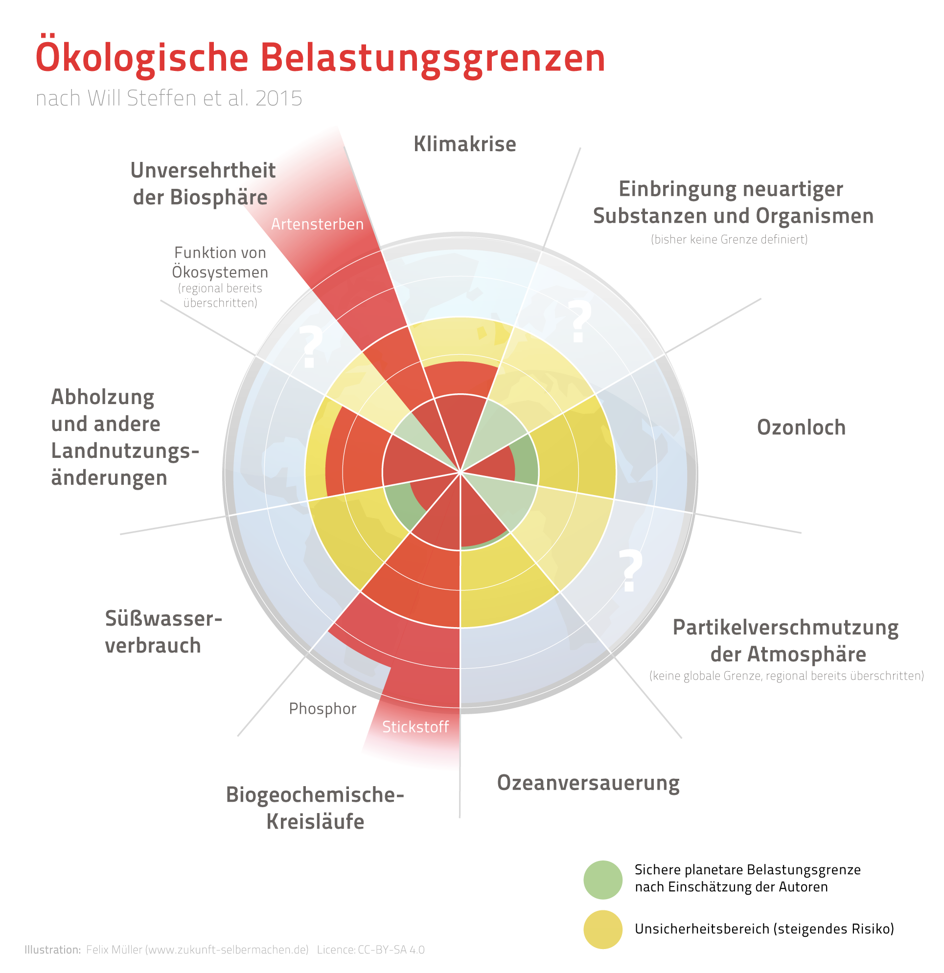 Planetary boundaries according to the paper by Will Steffen et al. published in 2015. The red areas represent the estimated current state with the inner green circle being the estimated safe boundaries and the yellow circle being the zone of uncertainty.